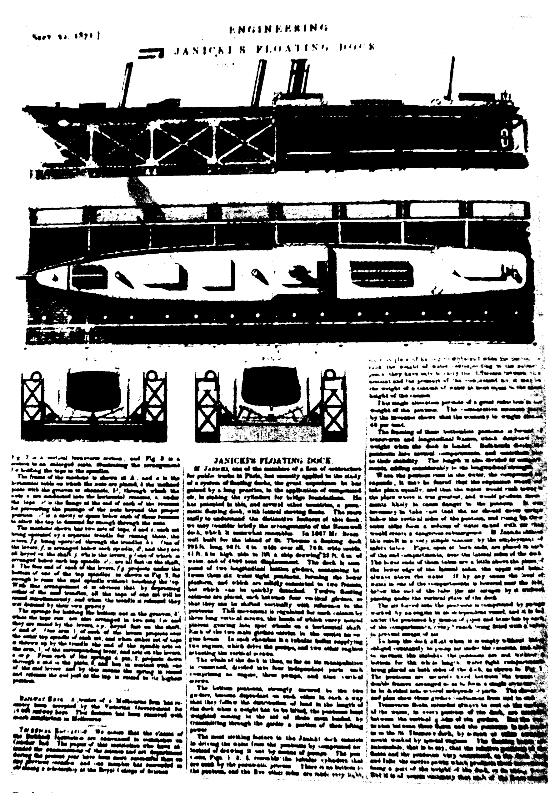 "Janicki`s Floating dock", "Engineering" September 1872.